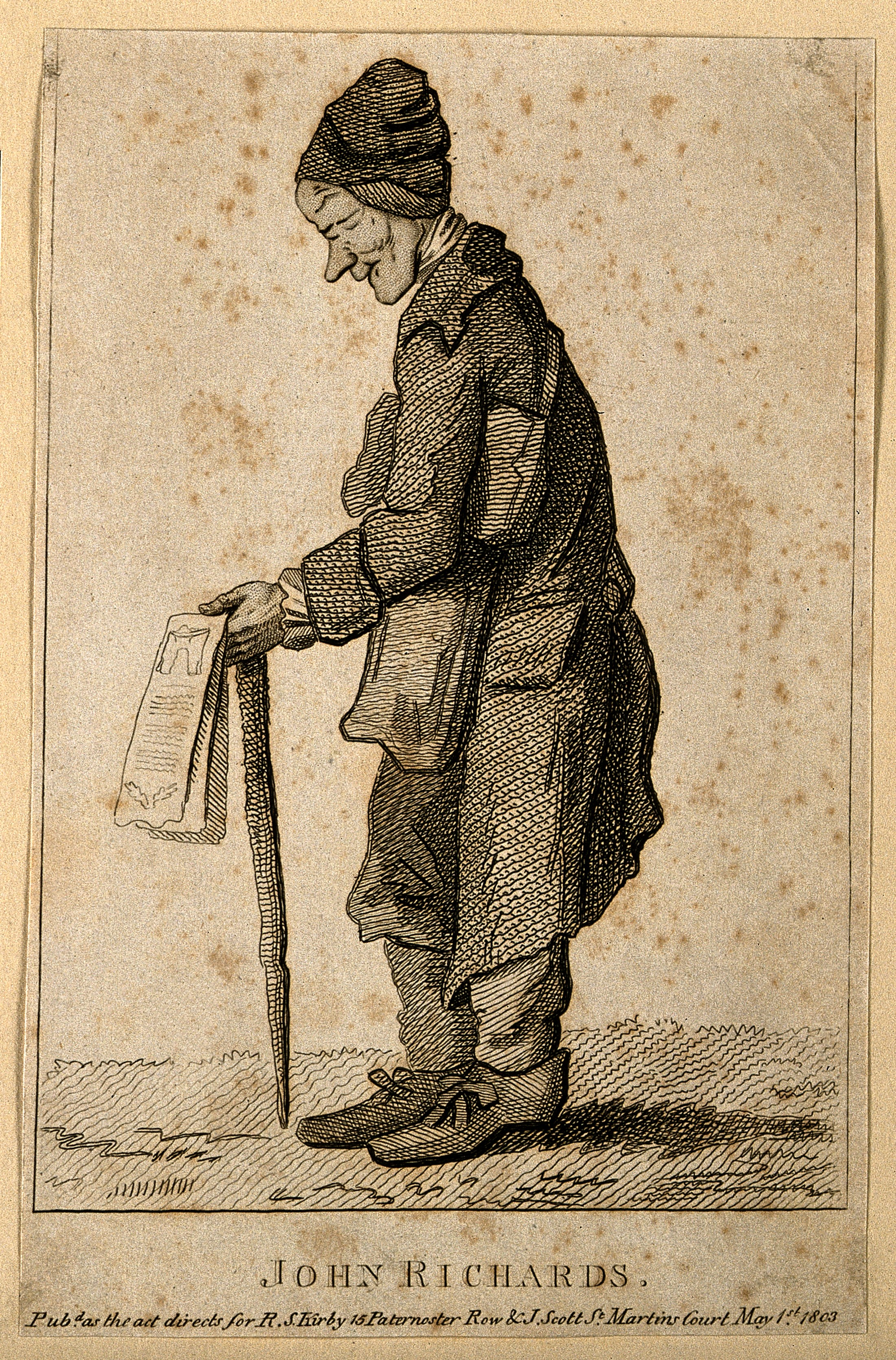 John Richards, a blind beggar. Etching, 1803, after J. Nixon. Iconographic Collections Keywords: portrait prints; richards, john; beggars; John Richards; Blindness; John Nixon; etchings